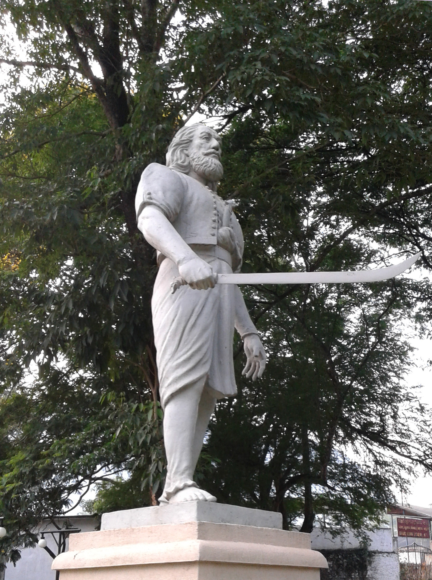 Photograph of Keppetipola Disawa Statue.